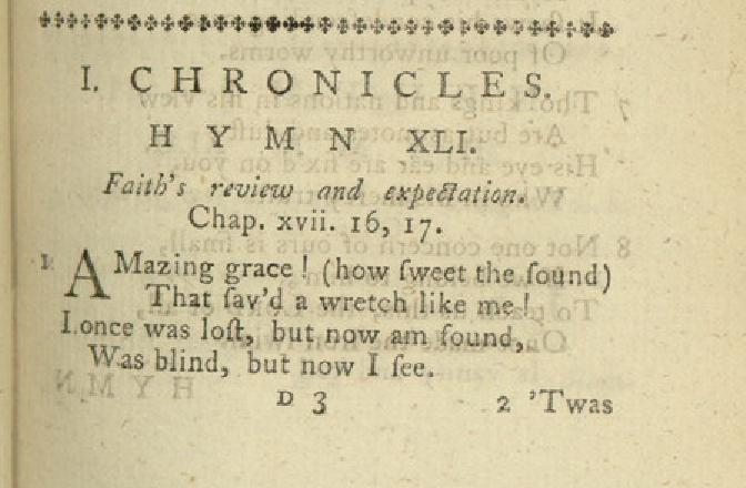 Amazing Grace, First version, in "Olney Hymns", on page 53 (bottom), 1779